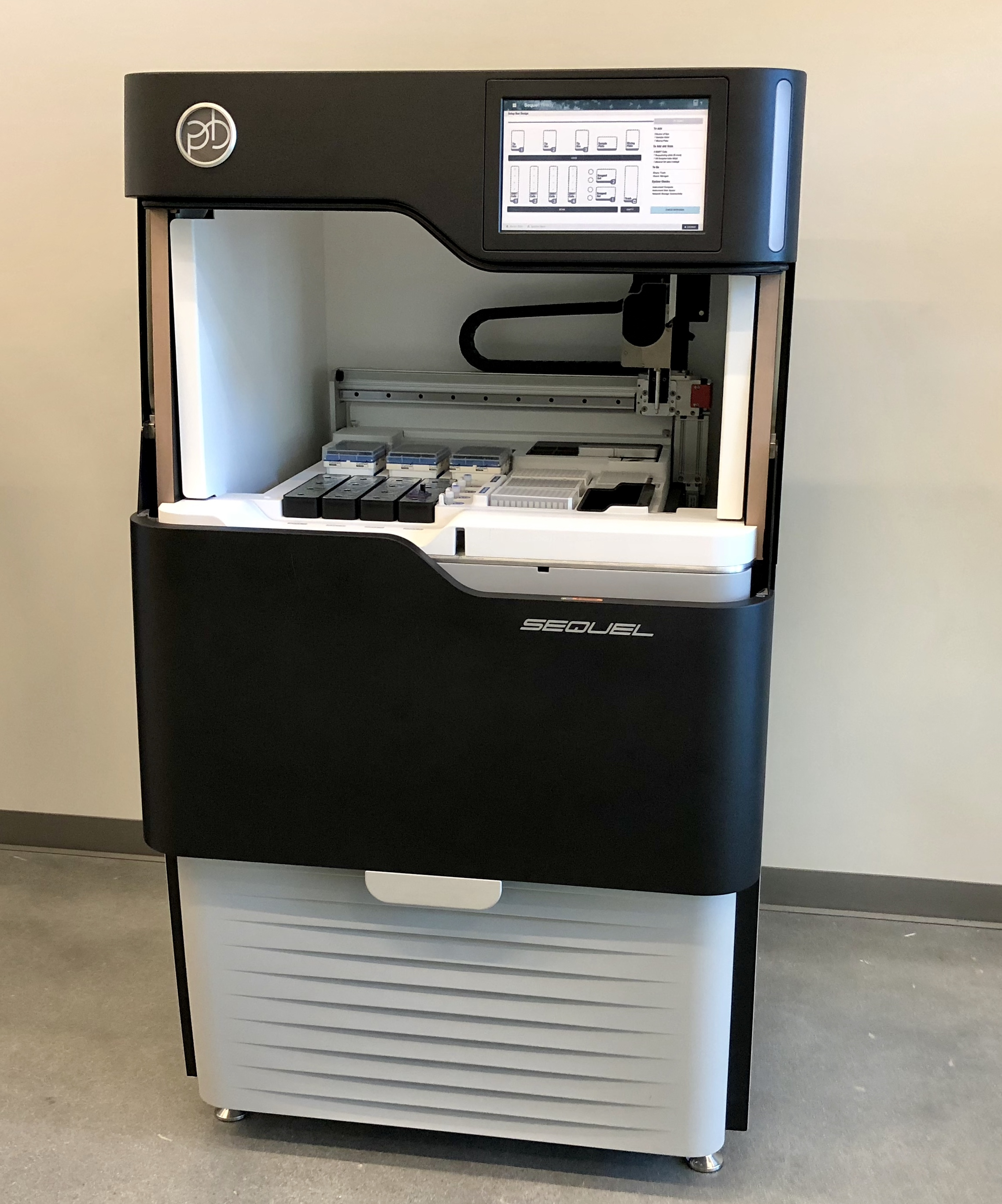 Pacific Biosciences Sequel Sequencer